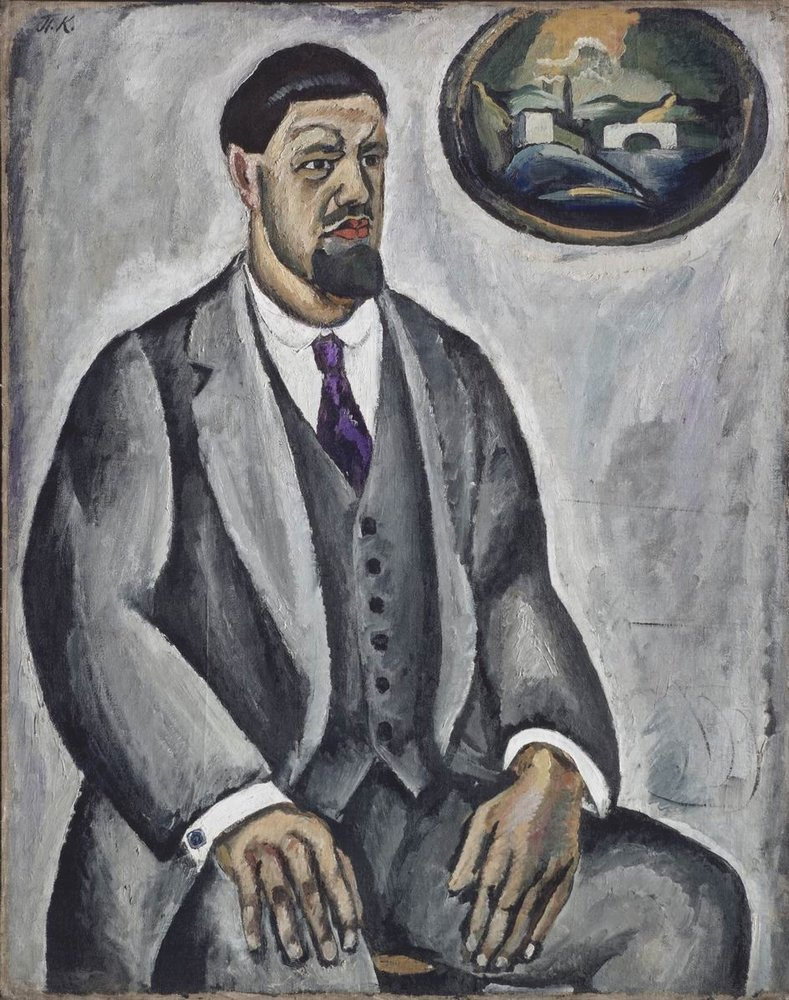 Piotr Konchalovsky (1876 - 1956) Self-portrait in gray, 1911